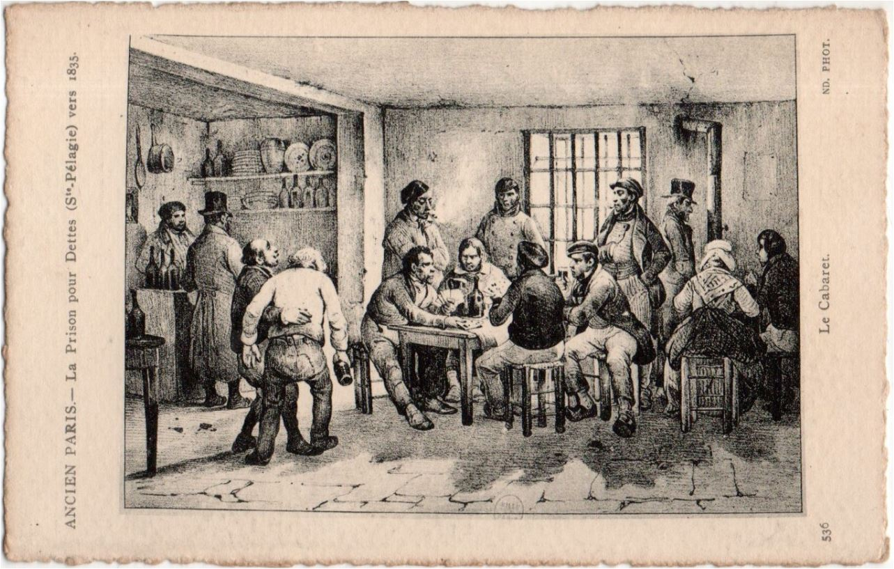 In one room, evoking a gambling den, men are seated, others standing converse. One of them is a bottle by hand. A portion of the part is devoted to storage has vaissele. The set is pretty miserable and the only window has bars